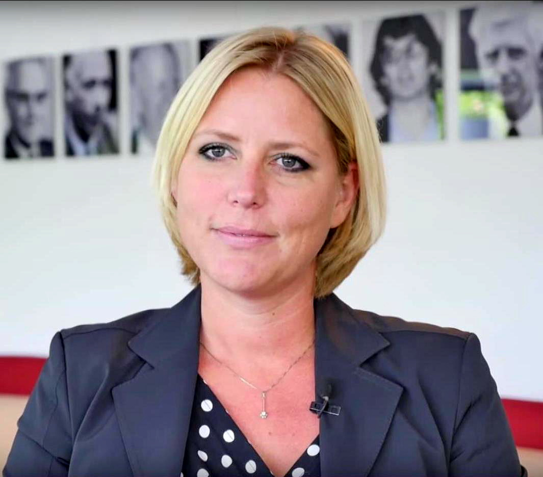 Dutch law scholar Rianne Letschert, receiving a VIDI scientific grant (2015)